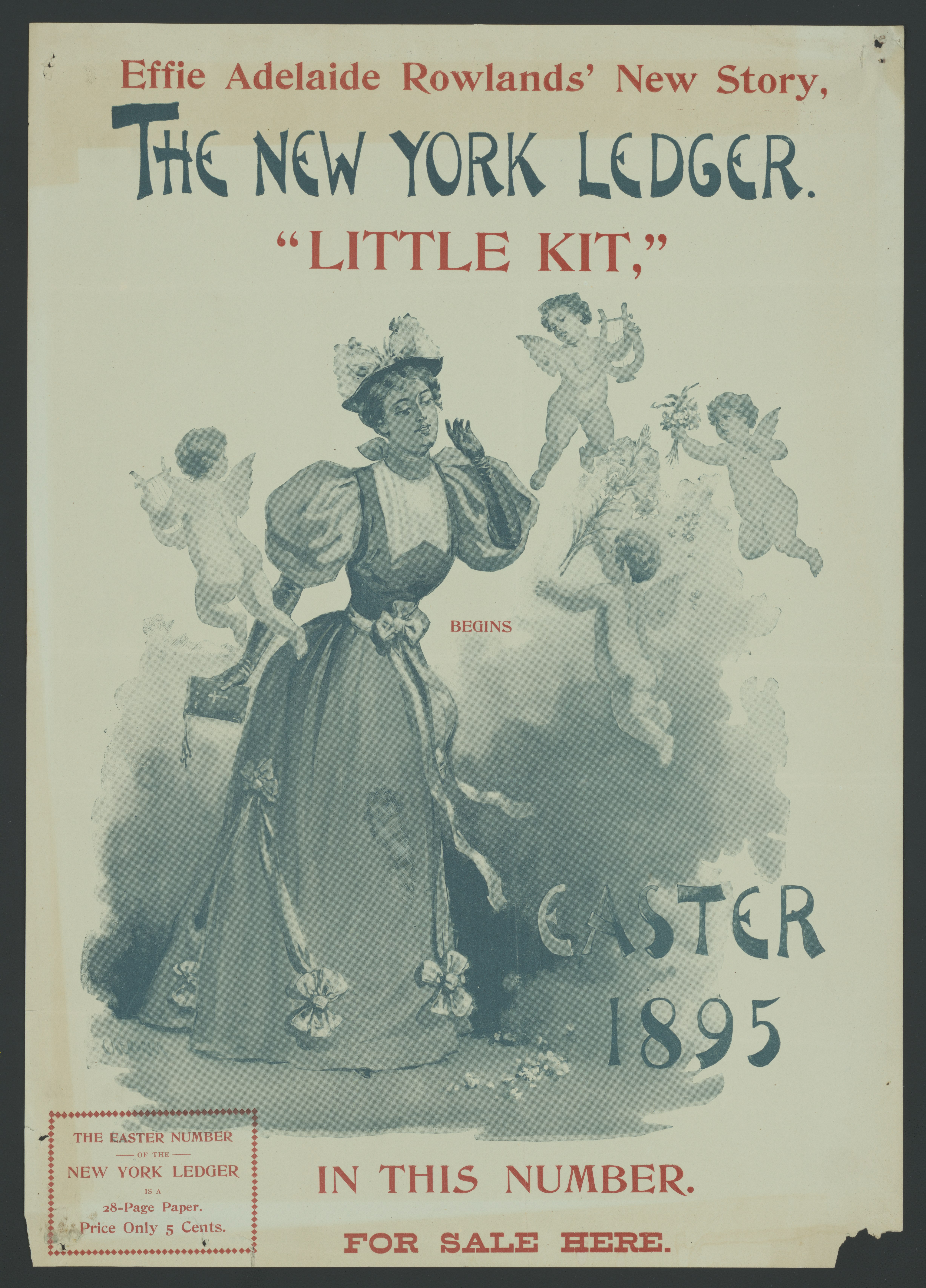 Title: The New York Ledger. Effie Adelaide Rowlands' new story, "Little Kit," begins in this number. Easter 1895. Abstract/medium: 1 print : color ; sheet 42 x 29 cm (poster format)